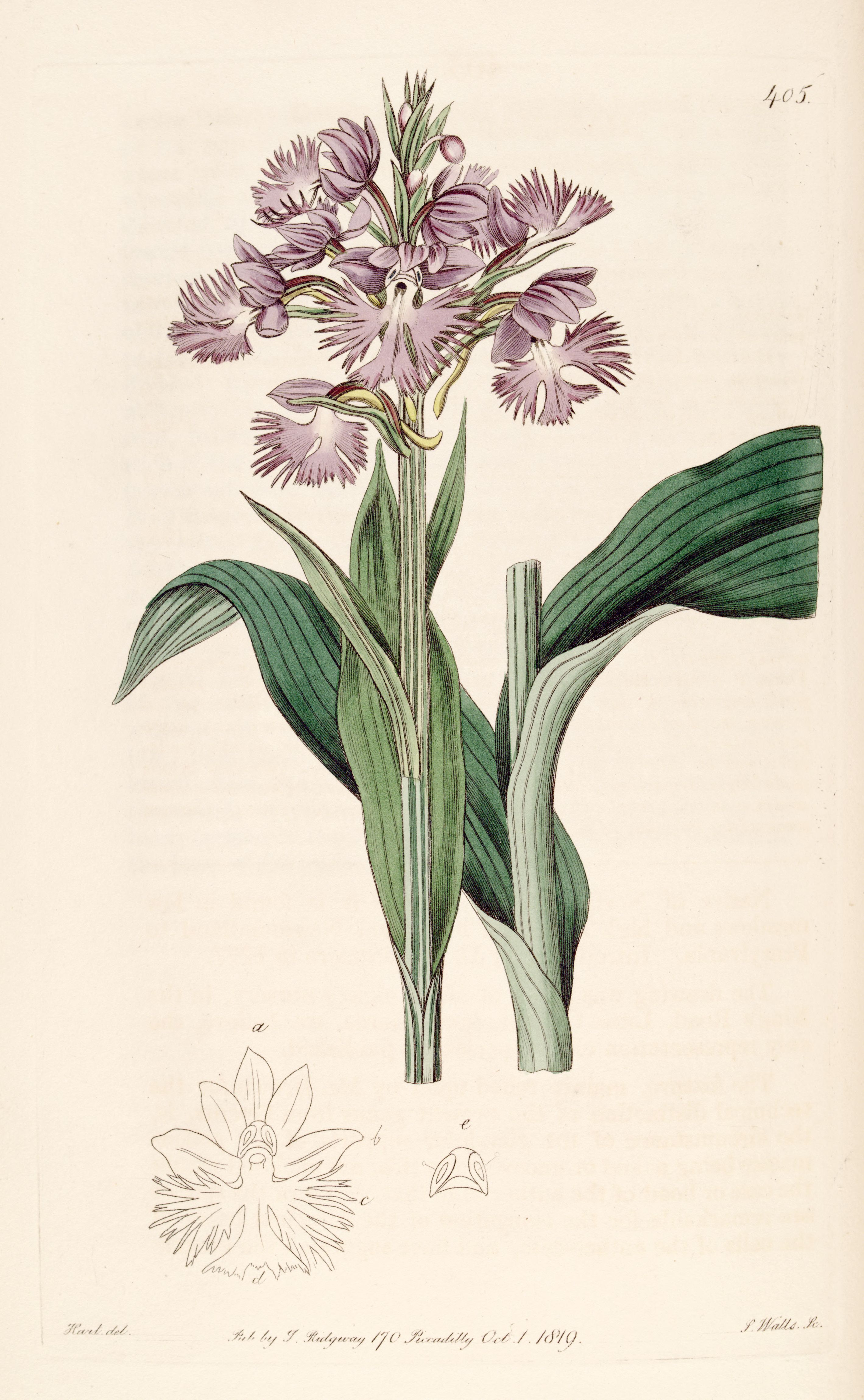 Illustration of Platanthera grandiflora (as syn. Habenaria fimbriata)